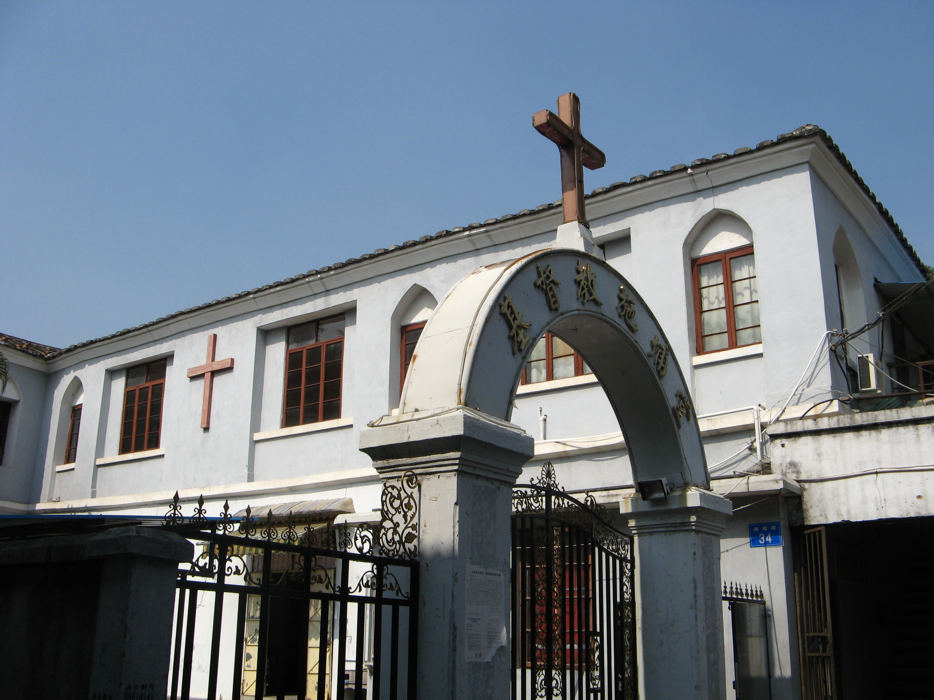 Fuzhou Shipu Church